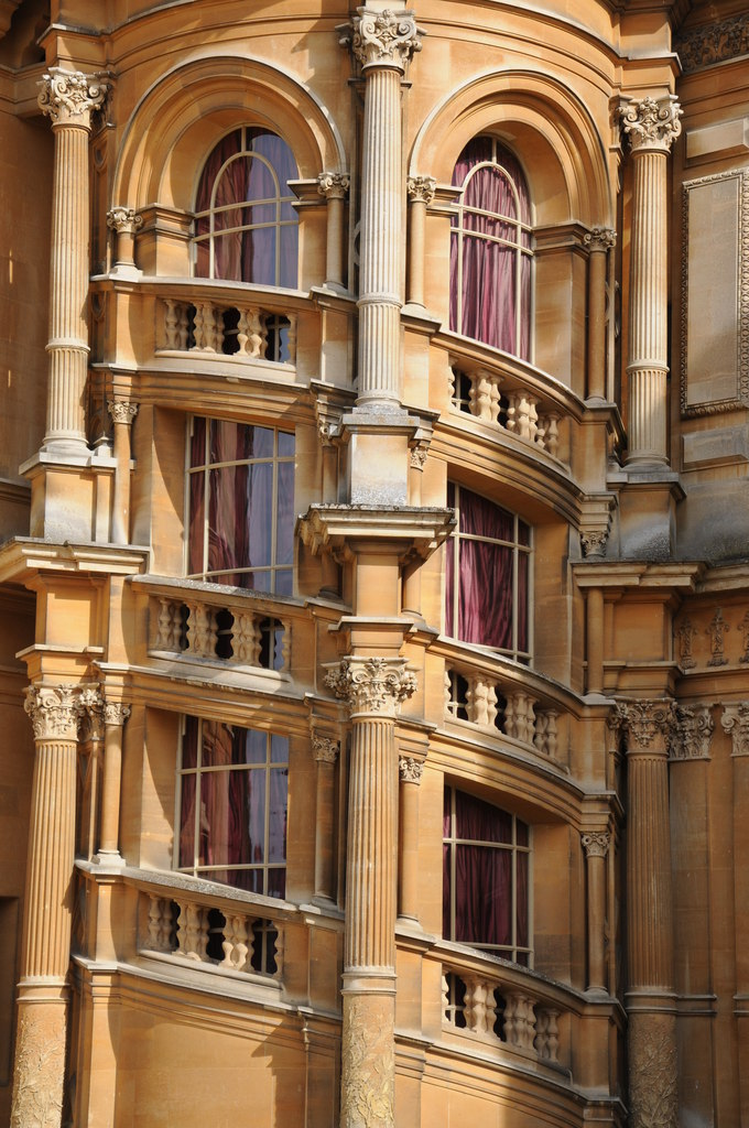 Stairs in Waddesdon manor